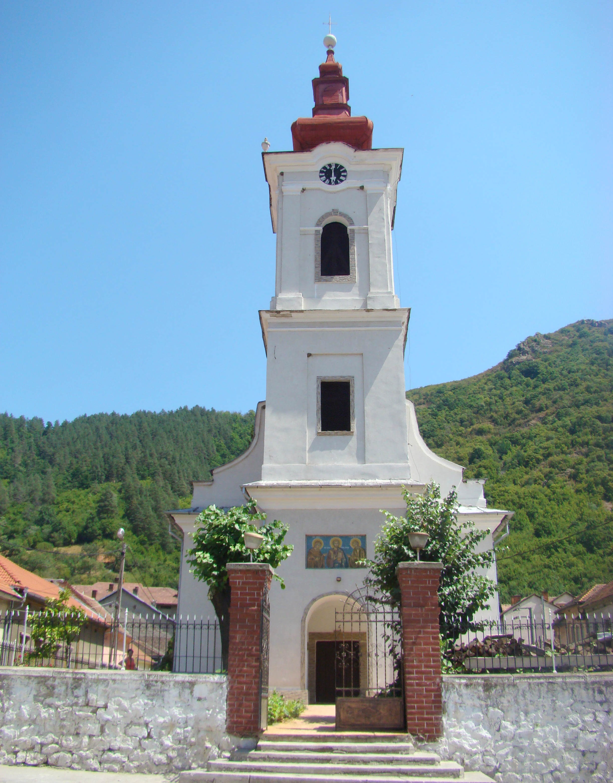 Orhodox church in Mehadia, Caraș-Severin county, Romania